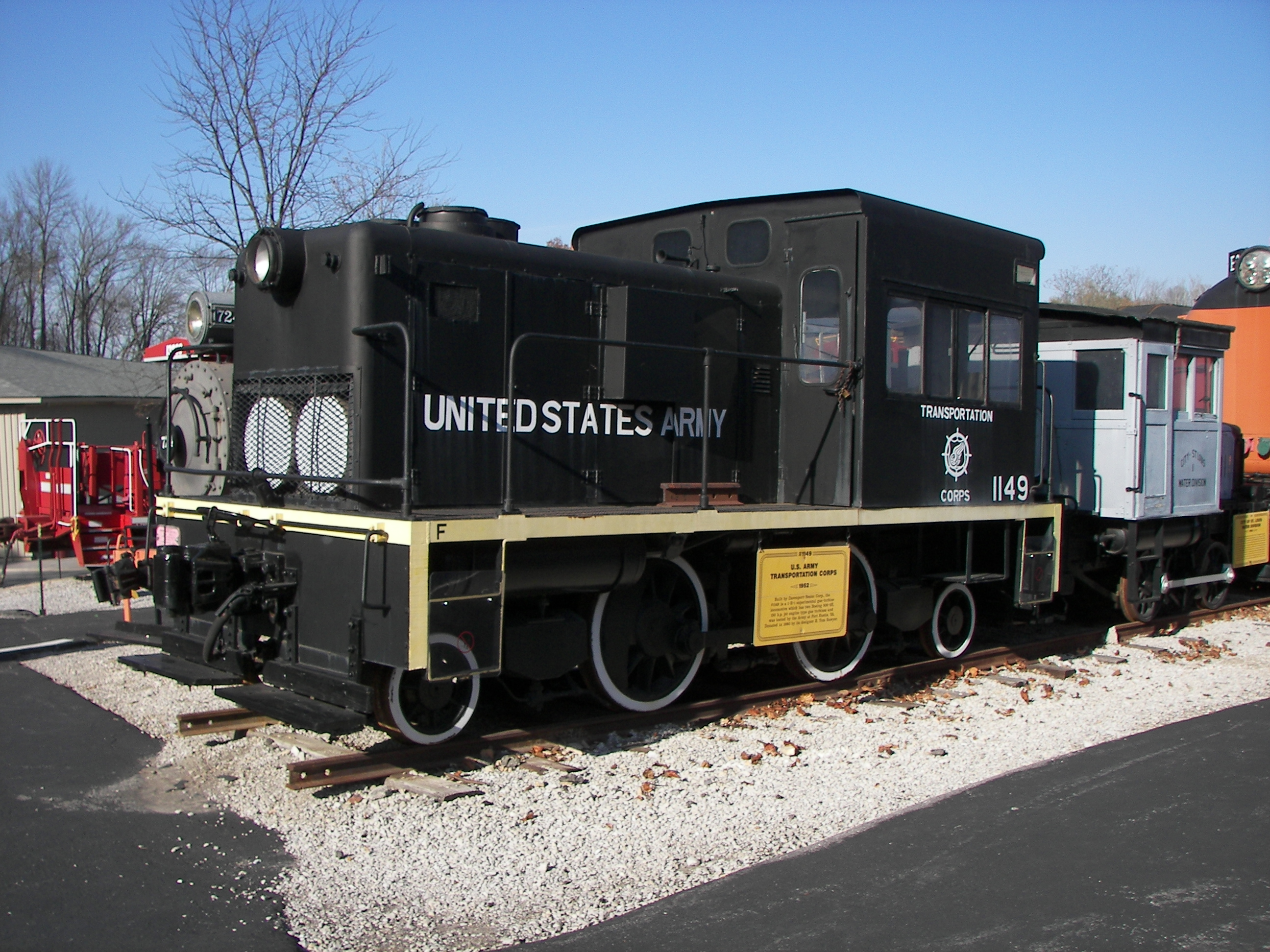 St. Louis, Missouri]. The #1149 was designed by R. Tom Sawyer and built by Davenport-Bessler Corp in 1952. It is powered by two Boeing 502-2E jet engine-type gas turbines. No modifications have been made to this image following capture by the camera.